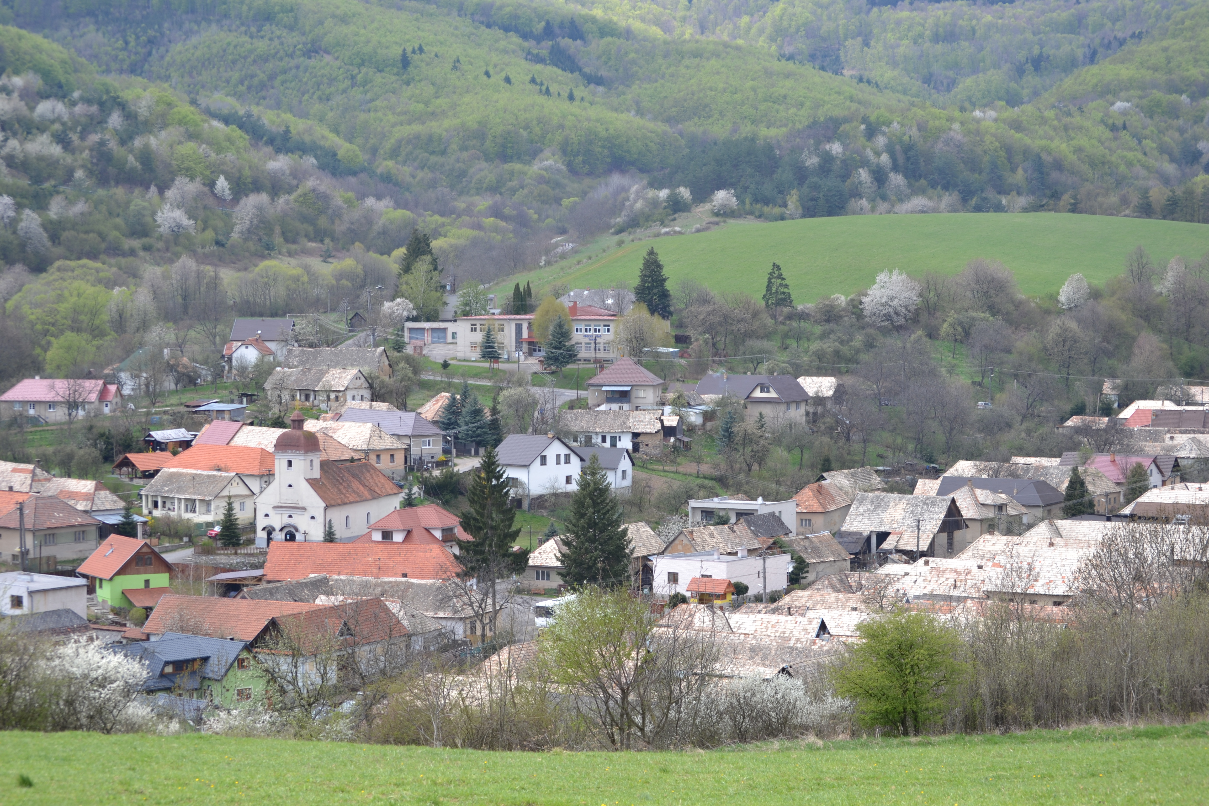 View of the village Tuhár